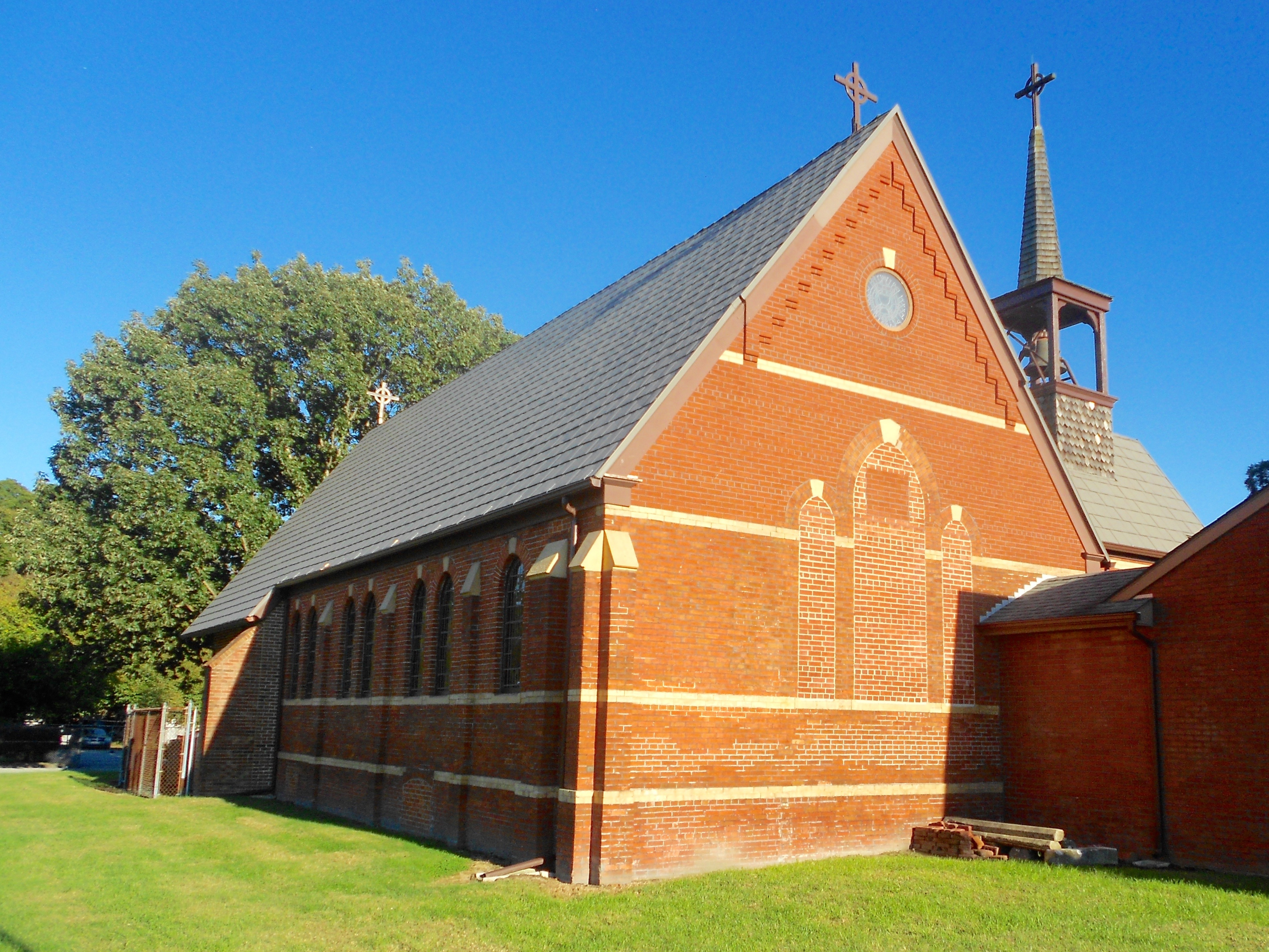 St. Mary's Episcopal Church in Bridgeville, Delaware. Part of the Bridgeville Historic District, listed on the NRHP on April 14, 1994 (#94000361). The district is roughly bounded by Market, Main and Edgewood Sts., School House Ln., Maple Alley and the Norfolk Southern railroad tracks 38°44′28″N 75°36′06″W. This church is just off Market Street.